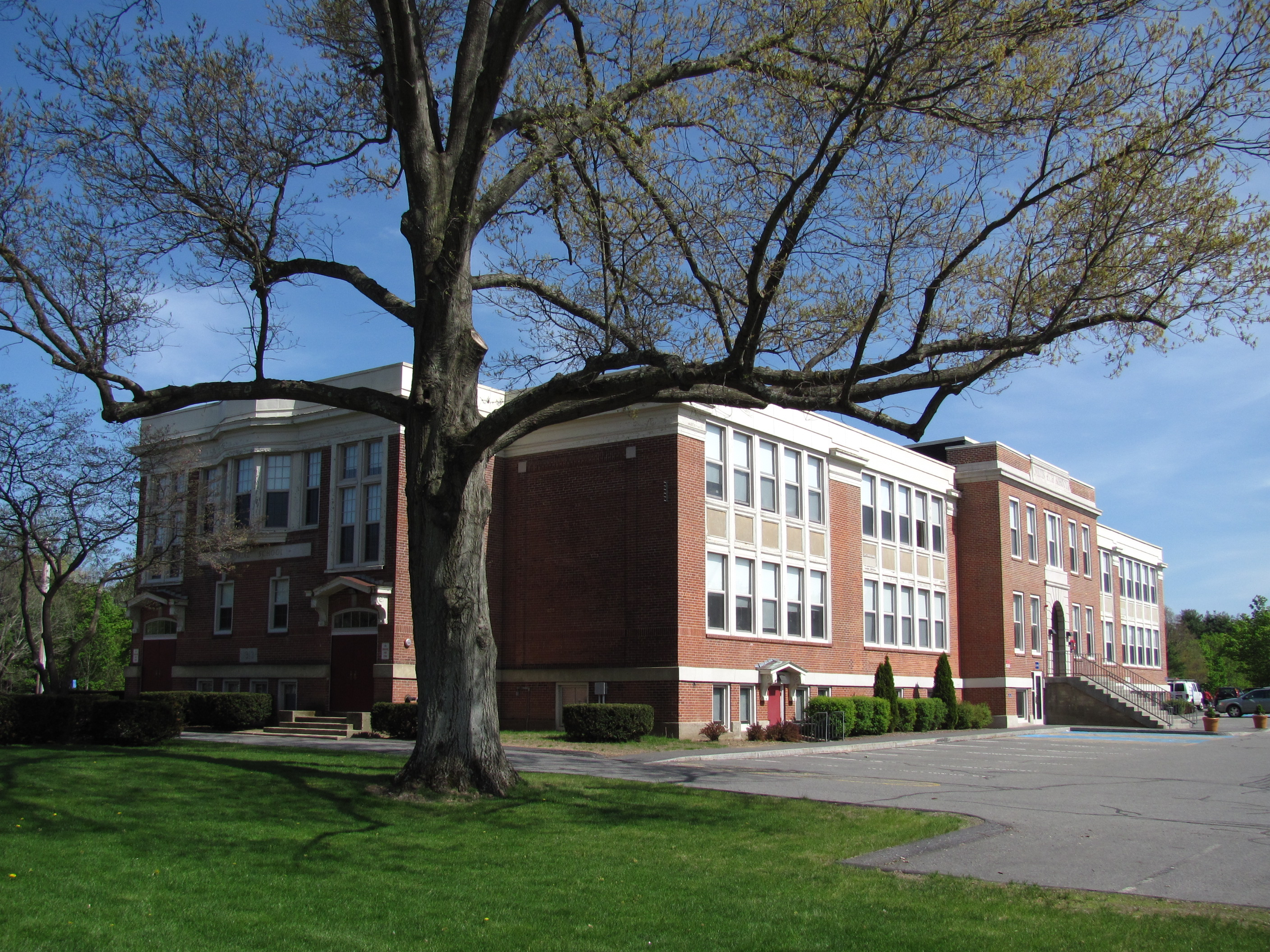 Veterans Memorial Building, Millis Massachusetts